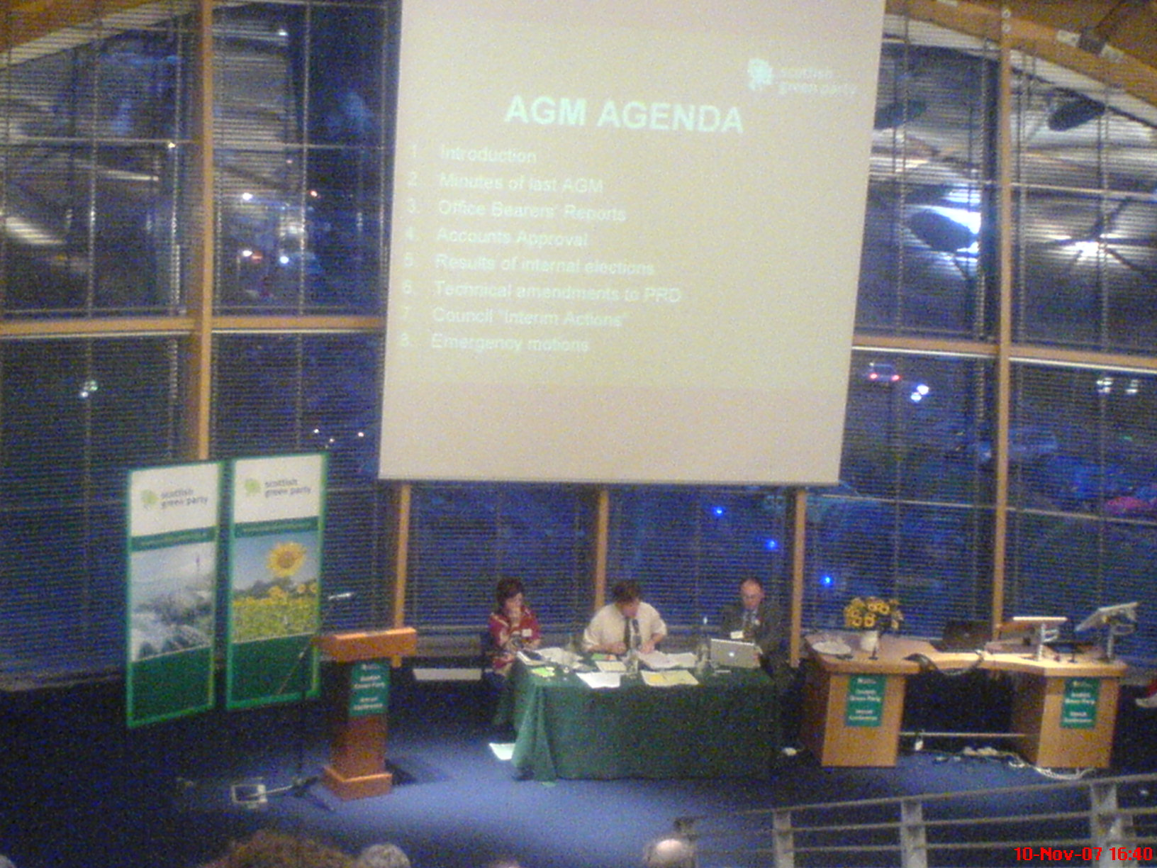 A picture I took on Sunday 11 November 2007 at the Scottish Green Party conference held in Napier University, Edinburgh.